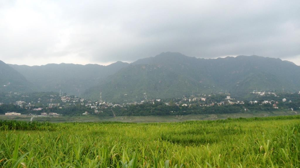 Panaromic view of Bilaspur city of Bilaspur District Himachal Pradesh,India